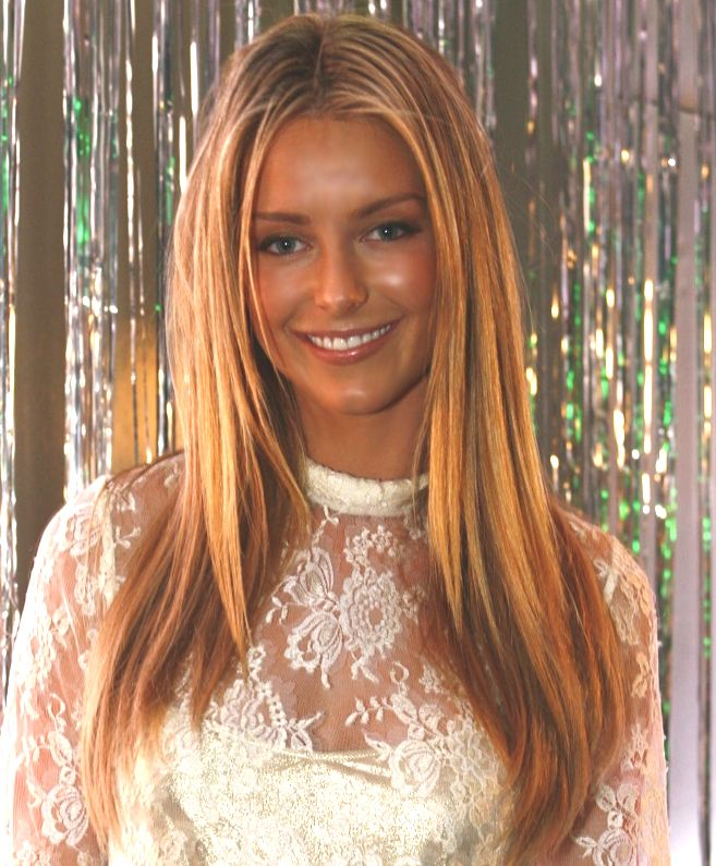 Jennifer Hawkins, Miss Universe 2004